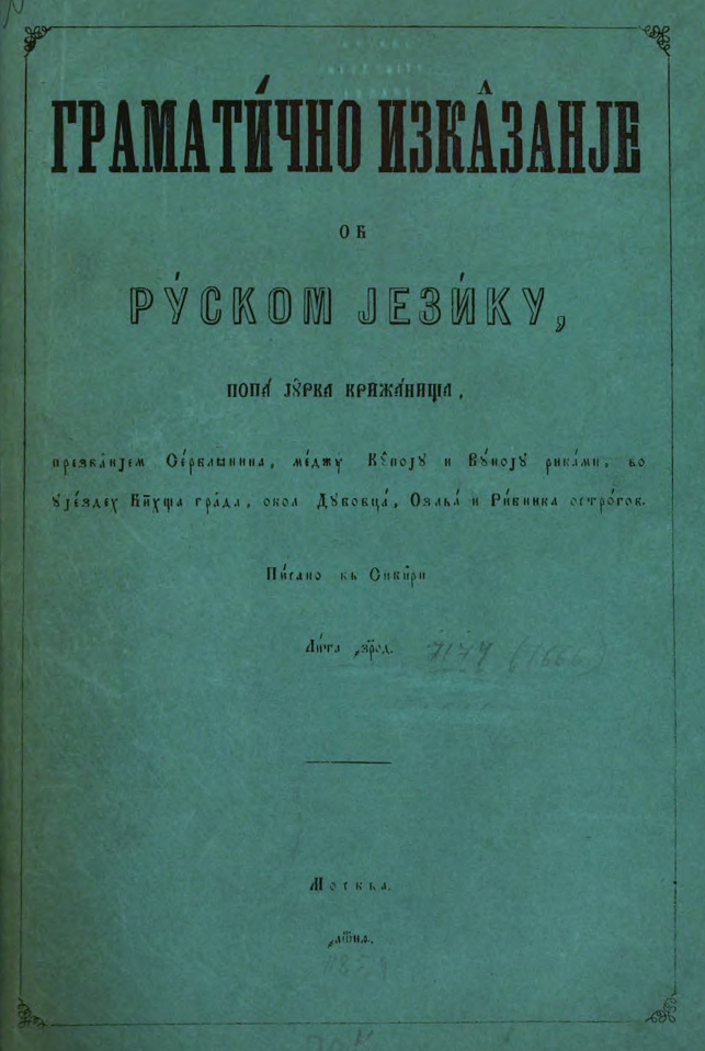 Front page of "Gramatično izkazanje ob ruskom jeziku" (ca. 1665) by Juraj Križanić, the first Interslavic grammar